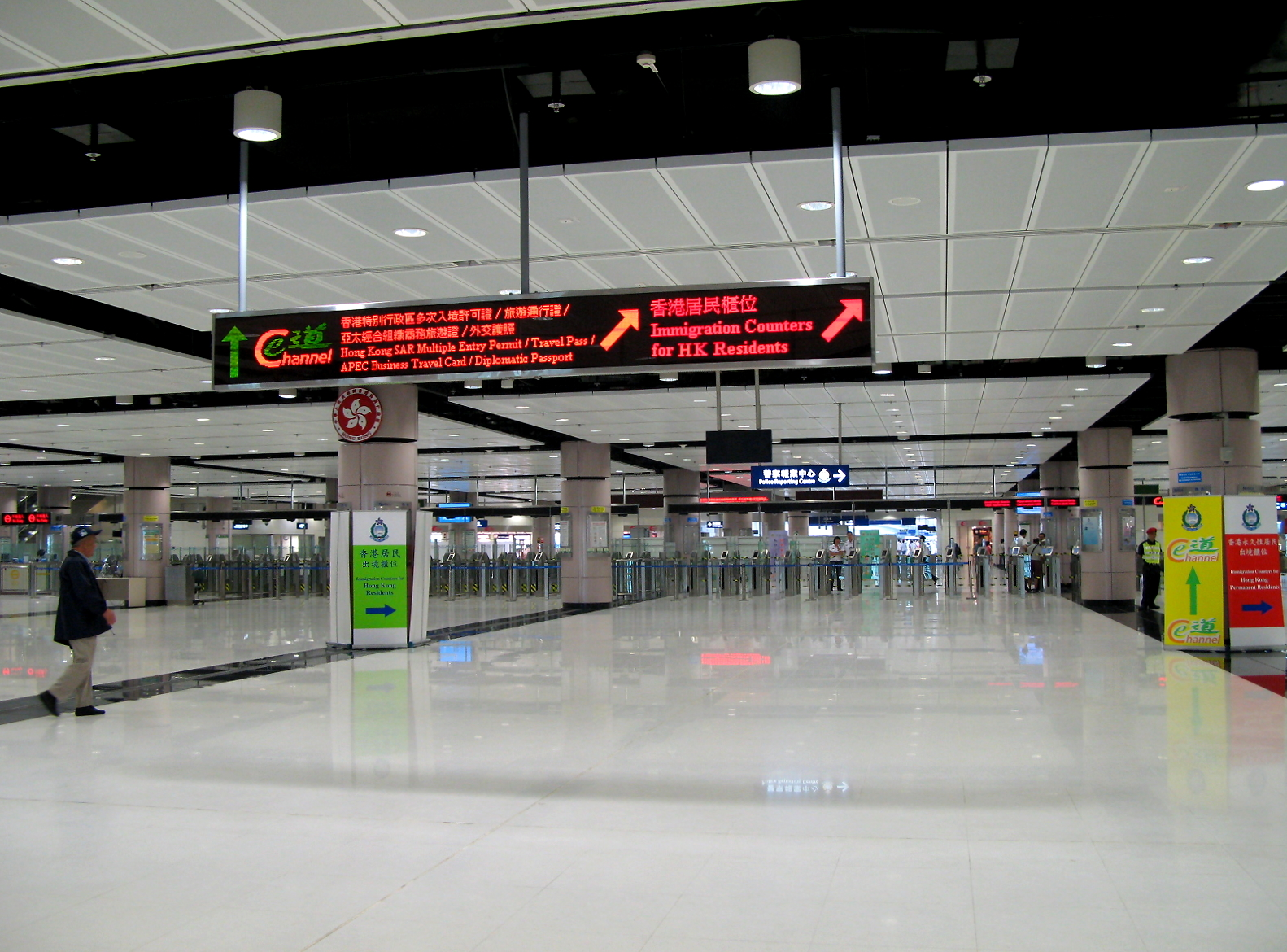 KCR Lok Ma Chau Immigration Counter